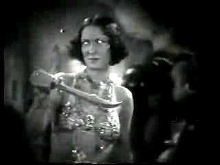 Kithnou as La of Opar in Tarzan the Tiger - about the sacrifice Jane.